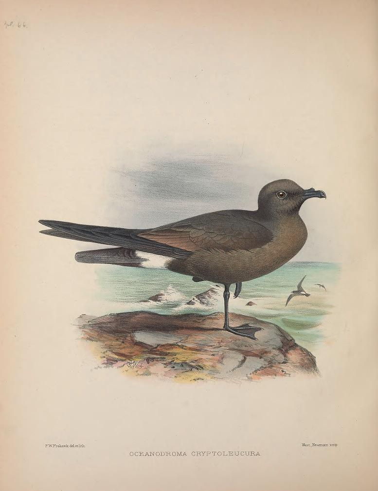 Oceanodroma cryptoleucura from The Birds of the Sandwich Islands